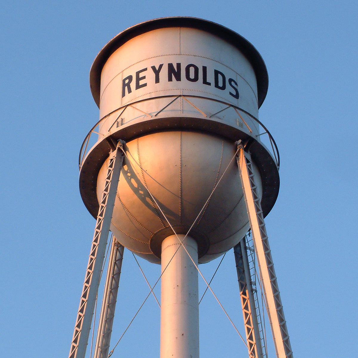 The water tower in the town of Reynolds, Indiana. This photo was taken from near the railroad tracks between Kenton Street and Clark Street, and looks generally south.